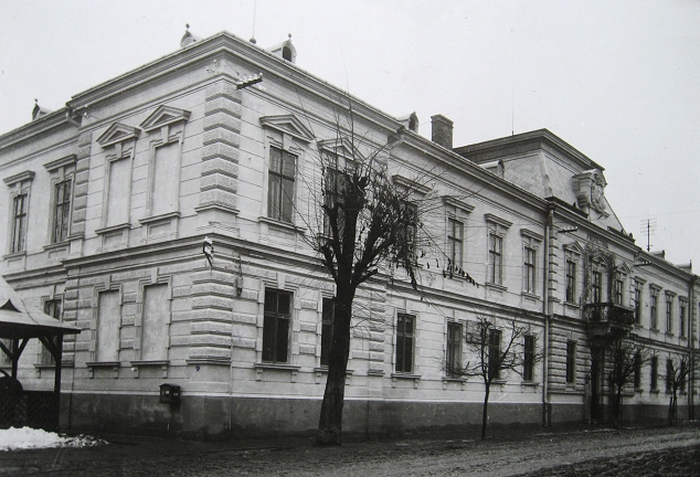 Bukovina Museum in Suceava / Suceava History Museum. During the interwar period the building served as Suceava County Prefecture.